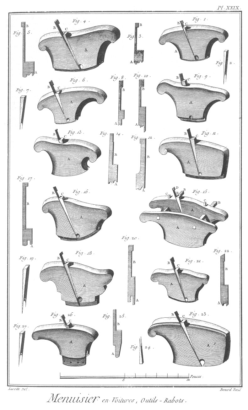 From "Planches de l'Encyclopédie de Diderot et d'Alembert", volume 6.